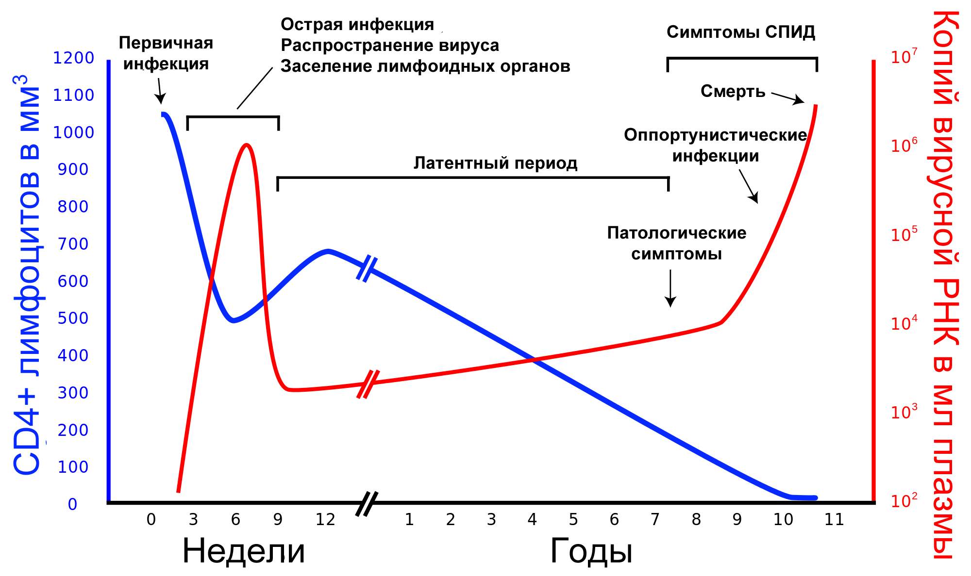 Vectorized version of graph showing HIV viral load in relation to CD4+ lymphocyte count